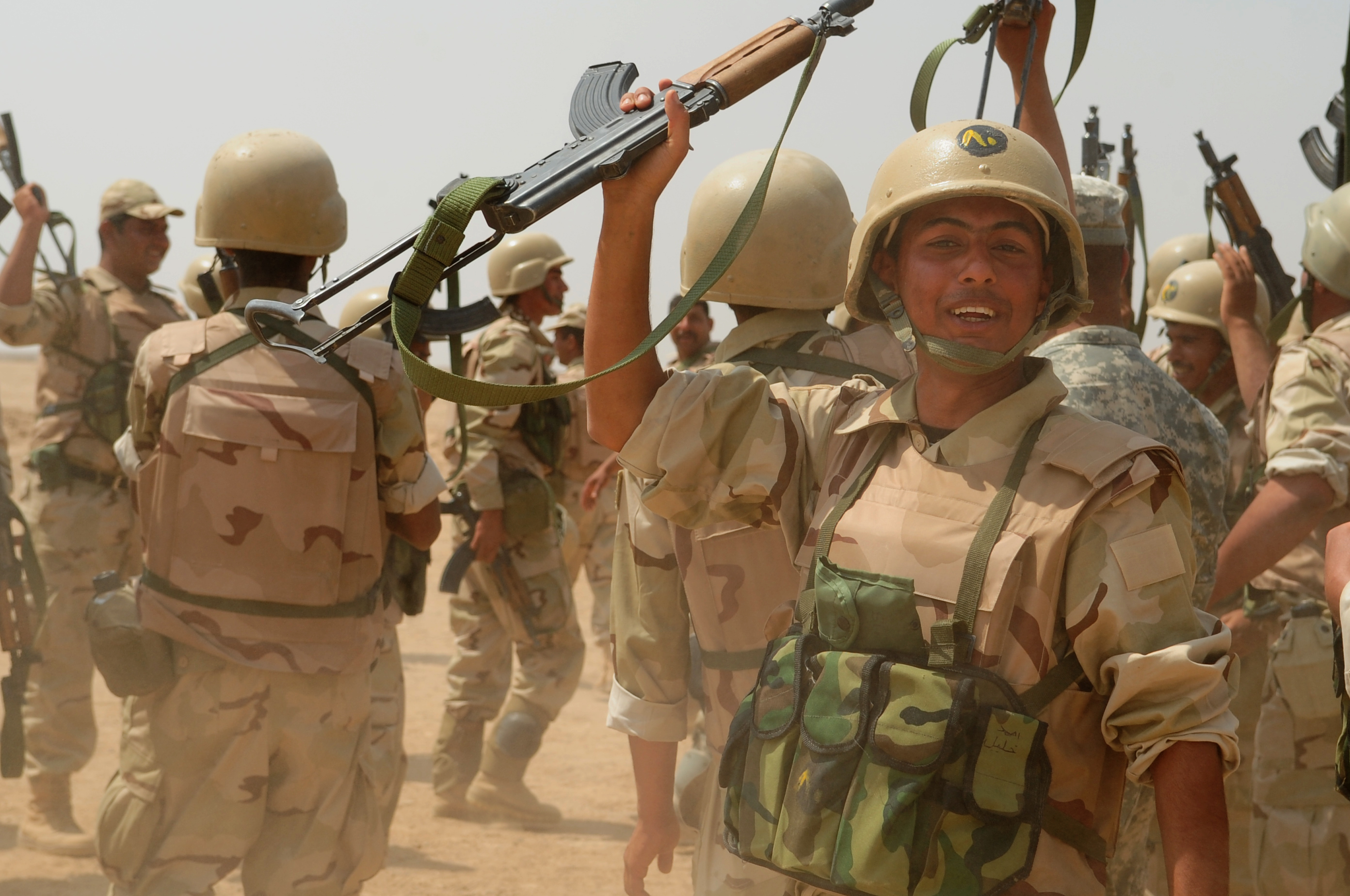 Iraqi army soldiers assigned to 17th IA Division celebrate completing their training on the 120-mm mortar system, taught by U.S. Soldiers from Delta Company, 1st Armored Battalion, 63rd Armored Regiment, 2nd Brigade Combat Team, 1st Infantry Division in Mahmudiyah, Iraq, on April 6. See more at Army.mil